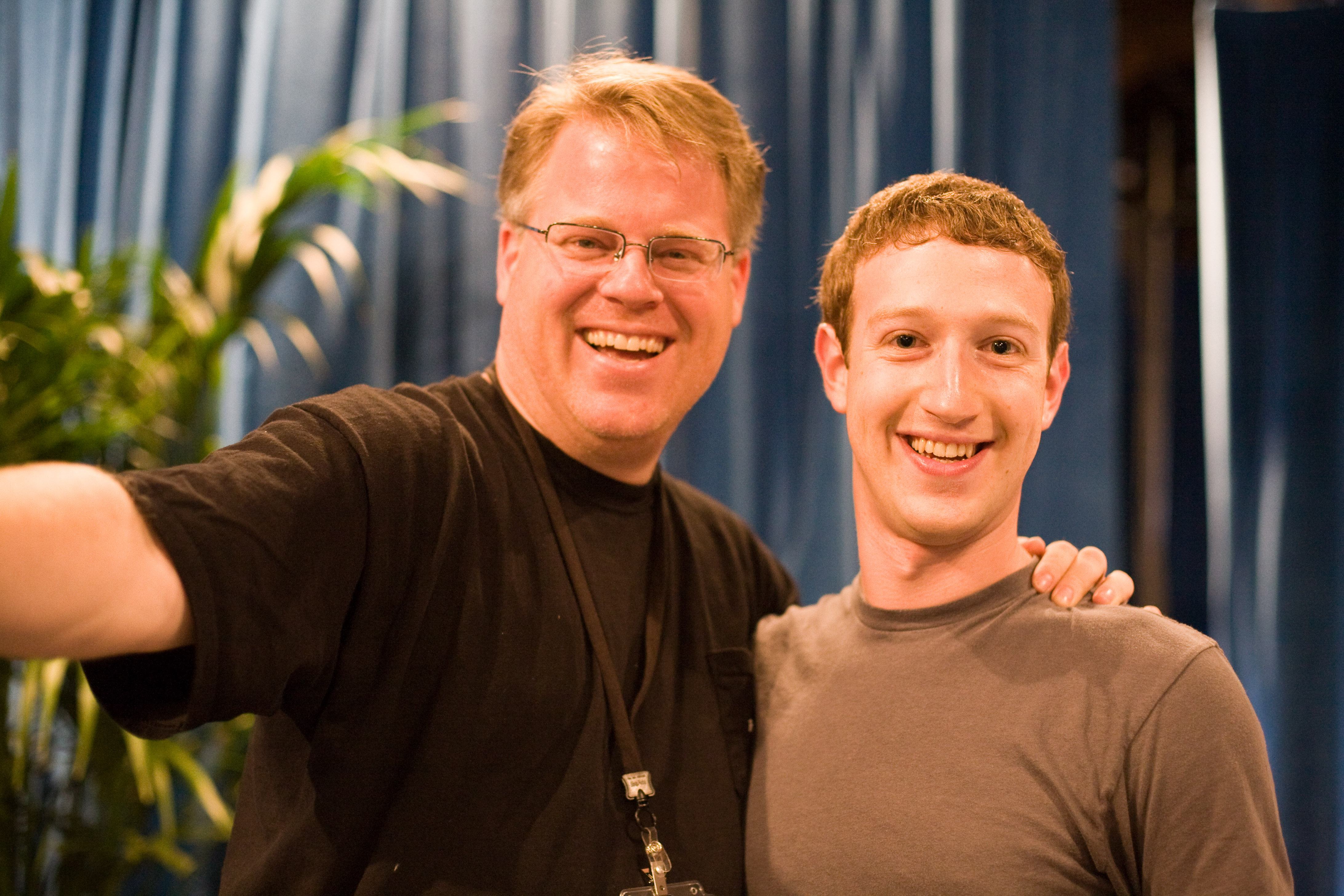 Robert Scoble (left) and Mark Zuckerberg (right) at F8